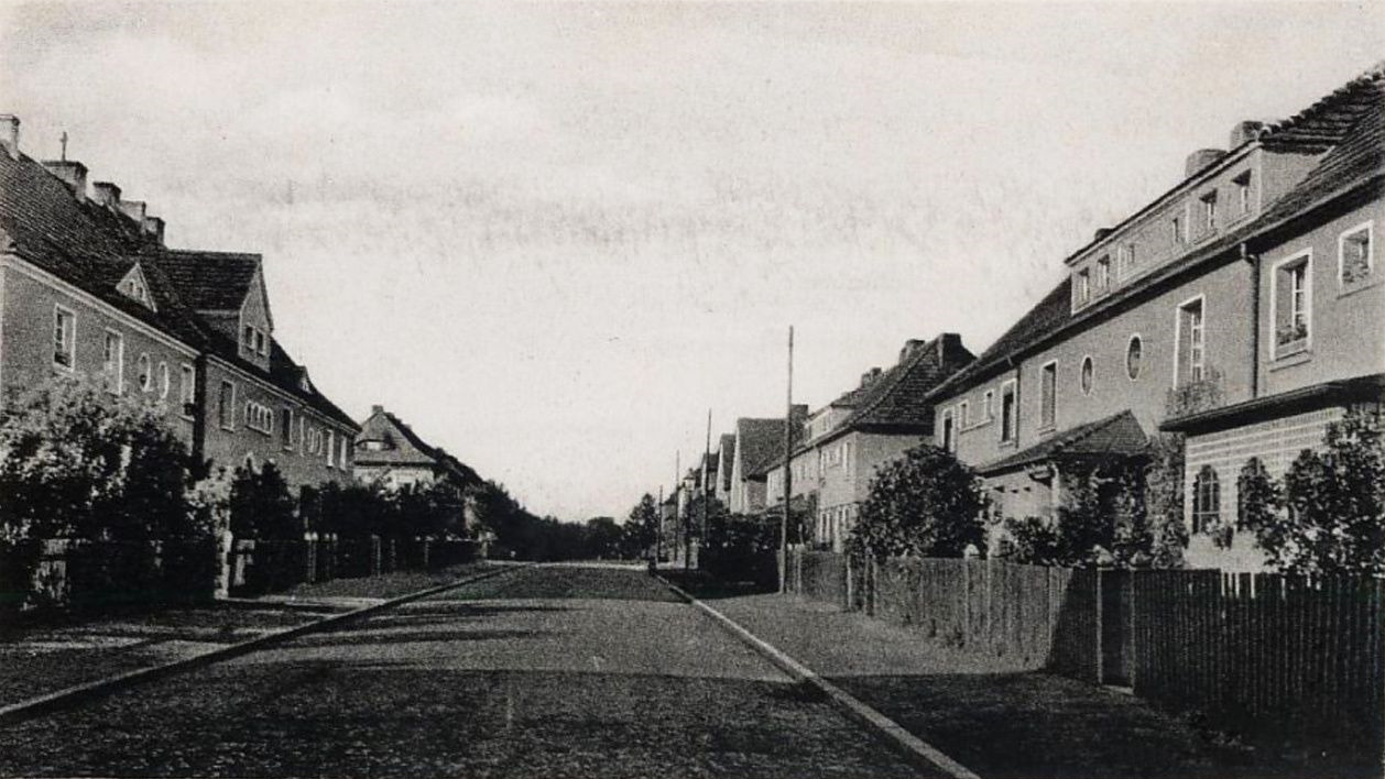 Grunwaldzka Street in Prudnik.